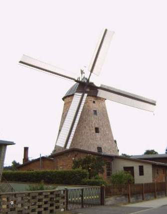 Windmill in Straupitz, Landkreis Dahme-Spreewald, Brandenburg, Germany. The historic windmill - a listed building - is still in use today.